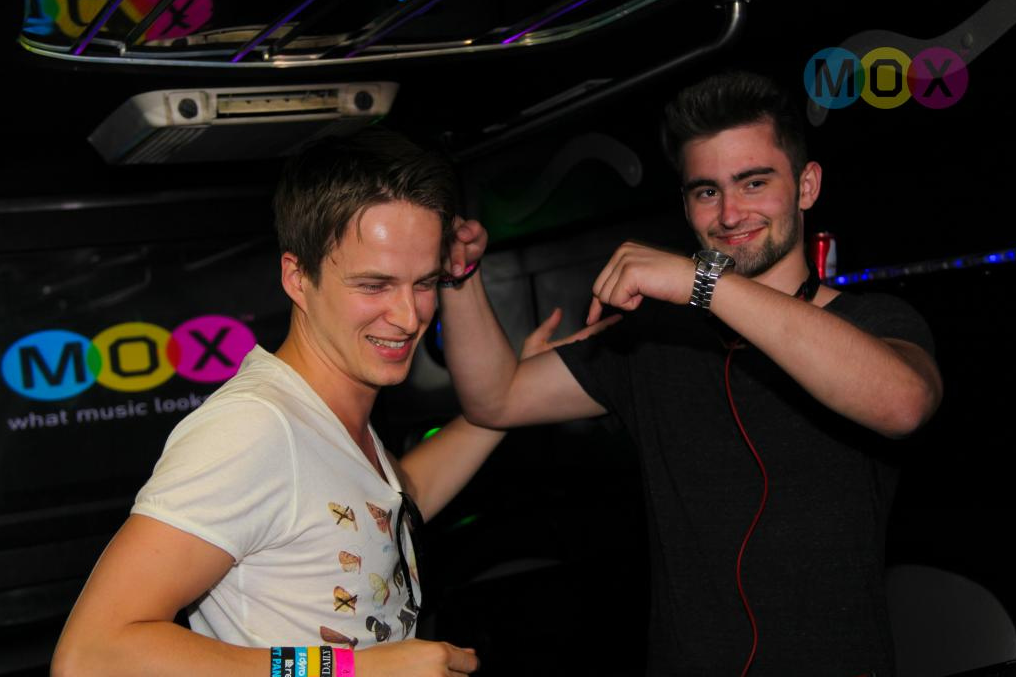 MOX || REVEALED Bus Party || HARDWELL || DYRO || DANNIC